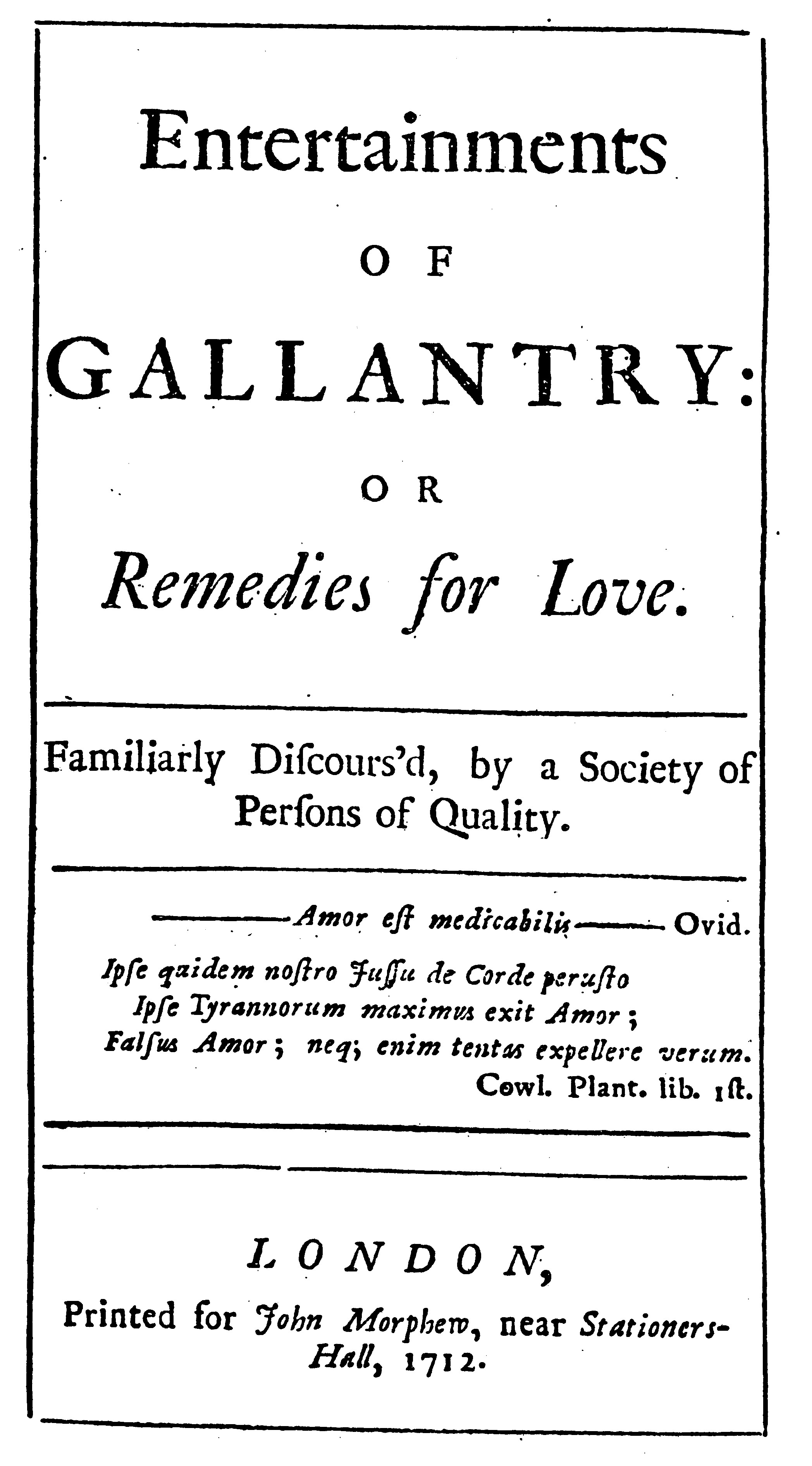 Entertainments of Gallantry (London: J. Morphew, 1712). Reprint: ed. M. F. Shugrue (New York/ London, 1973).